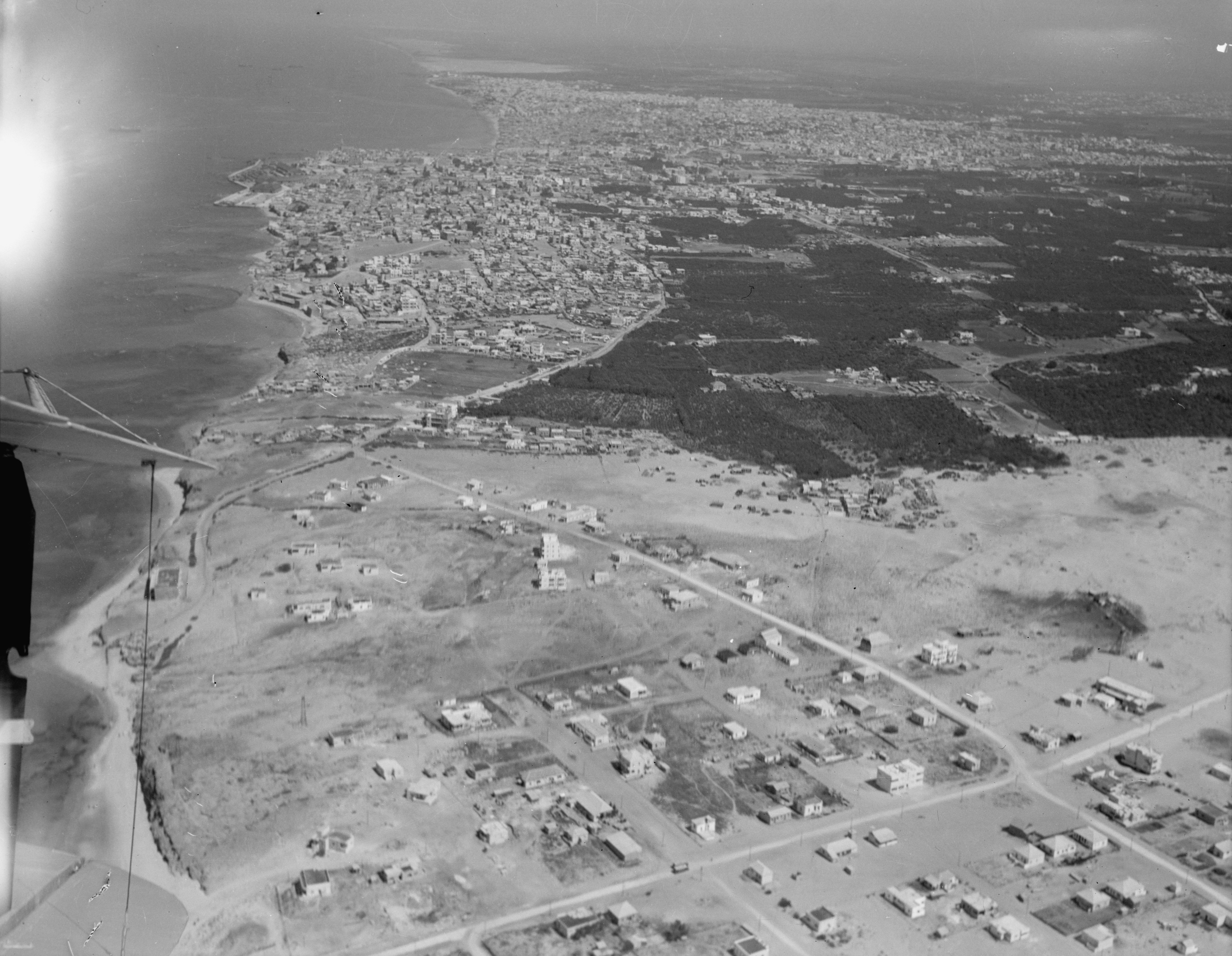 Title: Air films (1937). Jaffa & Tel-Aviv from the south Abstract/medium: G. Eric and Edith Matson Photograph Collection Physical description: 1 negative